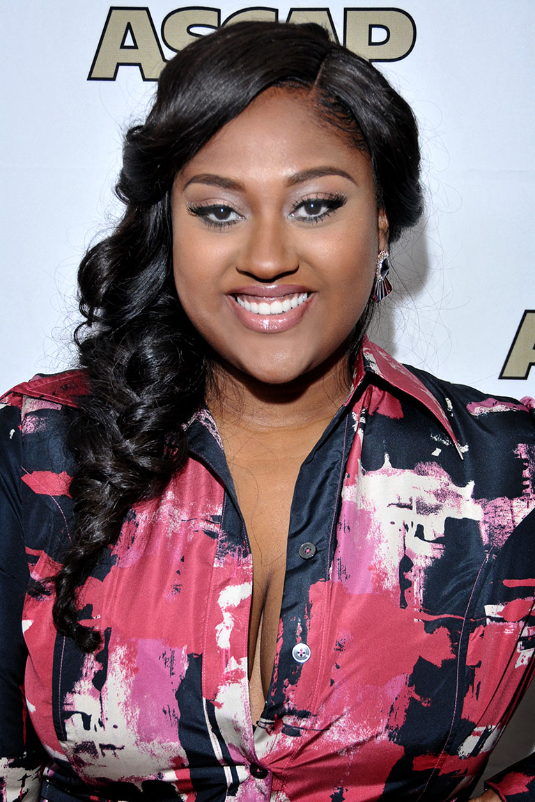 Jazmine Sullivan, Beverly Hills, California on June 25, 2015 - Photo by Glenn Francis of